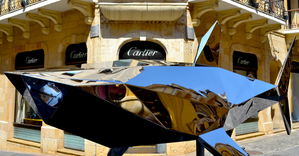 A 2008 polished stainless steel shark sculpture by French multimedia artist Xavier Veilhan